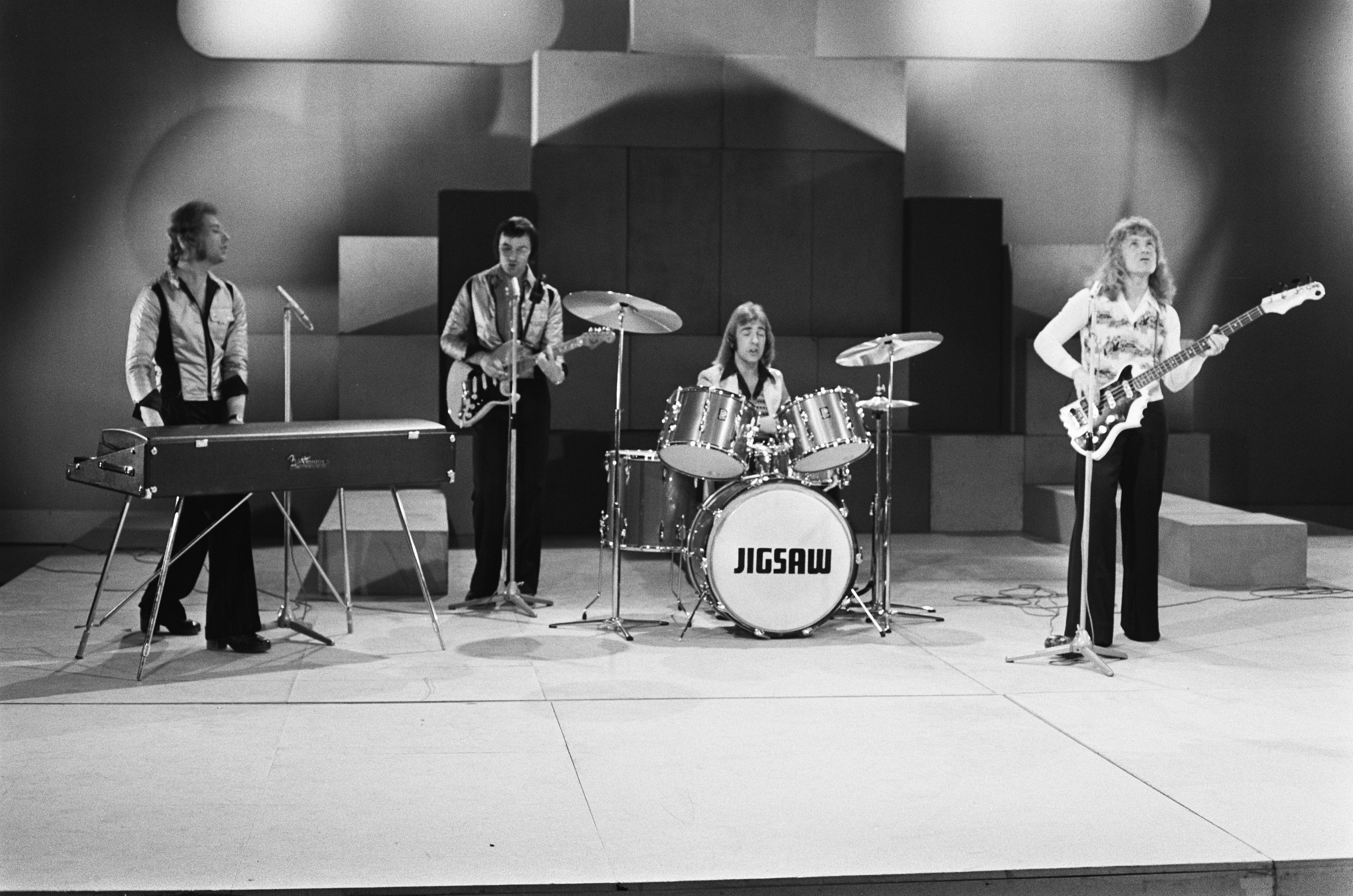 Musical band Jigsaw on Dutch television programme Toppop (20 March 1975)